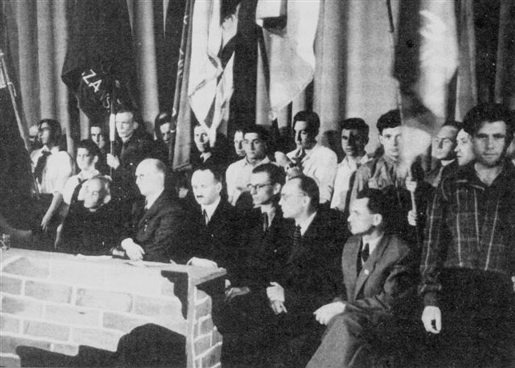 Members of Zegota at an official gathering in Warsaw, April 1946.